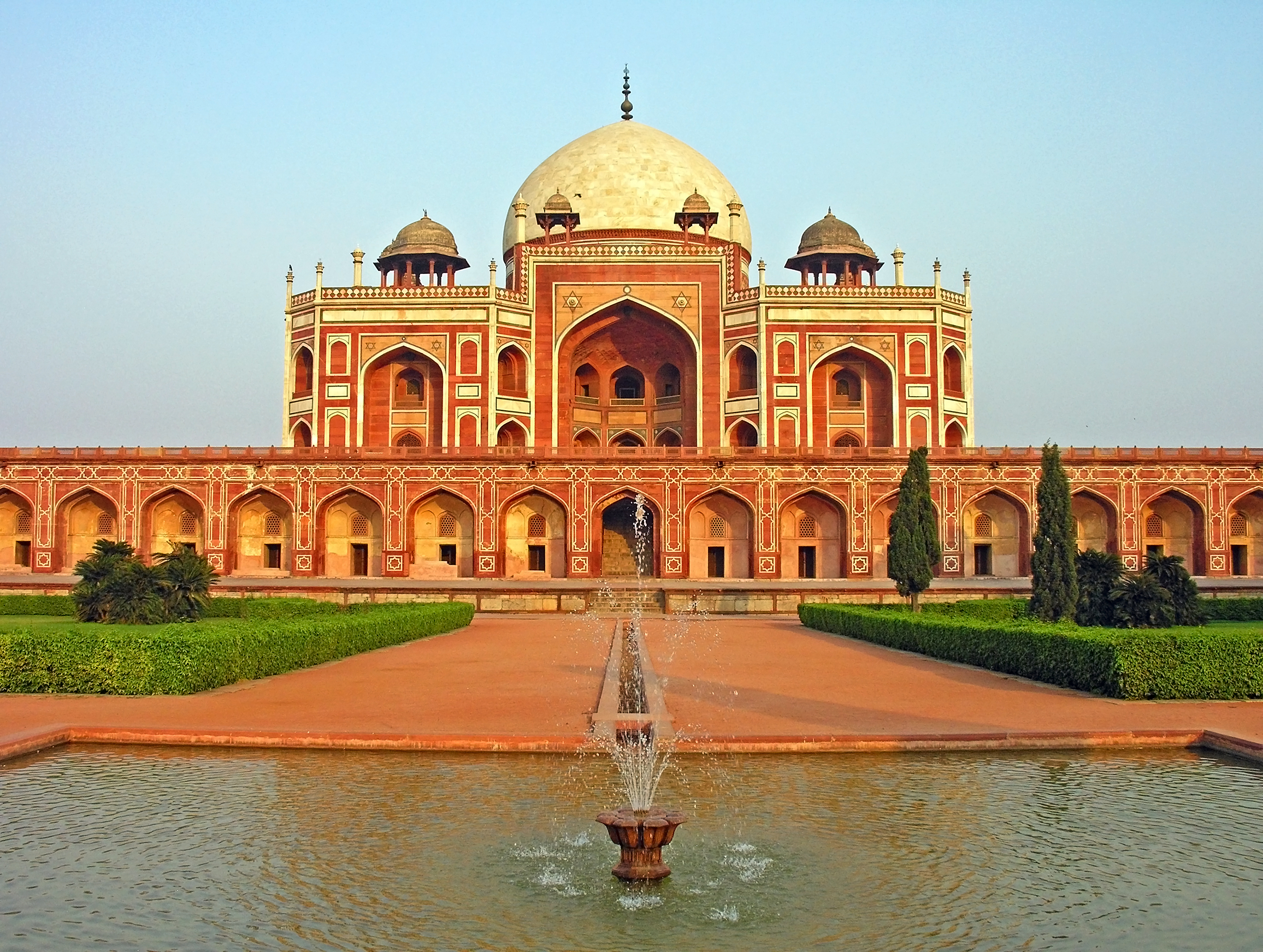 PLEASE, no multi invitations, glitters or self promotion in your comments. My photos are FREE for anyone to use, just give me credit and it would be nice if you let me know. Thanks View of Humayun’s Tomb as seen from the central fountain in the gardens. Humayun’s Tomb - Built in the middle of the 16th century by the widow of the Moghul emperor Humayun, this tomb launched a new architectural era that reflected its Persian influence, culminating in the Taj Mahal and Fatehpur Sikri. The Moghuls brought to India their love of gardens and fountains and left a legacy of harmonious structures, such as this mausoleum, that fuse symmetry with decorative splendor. Resting on an immense two-story platform, the tomb structure of red sandstone and white marble is surrounded by gardens intersected by water channels in the Moghuls' beloved charbagh design: perfectly square gardens divided into four (char) square parts. The marble dome covering the actual tomb is another first: a dome within a dome (the interior dome is set inside the soaring dome seen from outside), a style later used in the Taj Mahal. Wednesday (30 March) at 11am I see the neurosurgeon, will not upload another picture until I return from the appointment. I should get lots of information at that time.